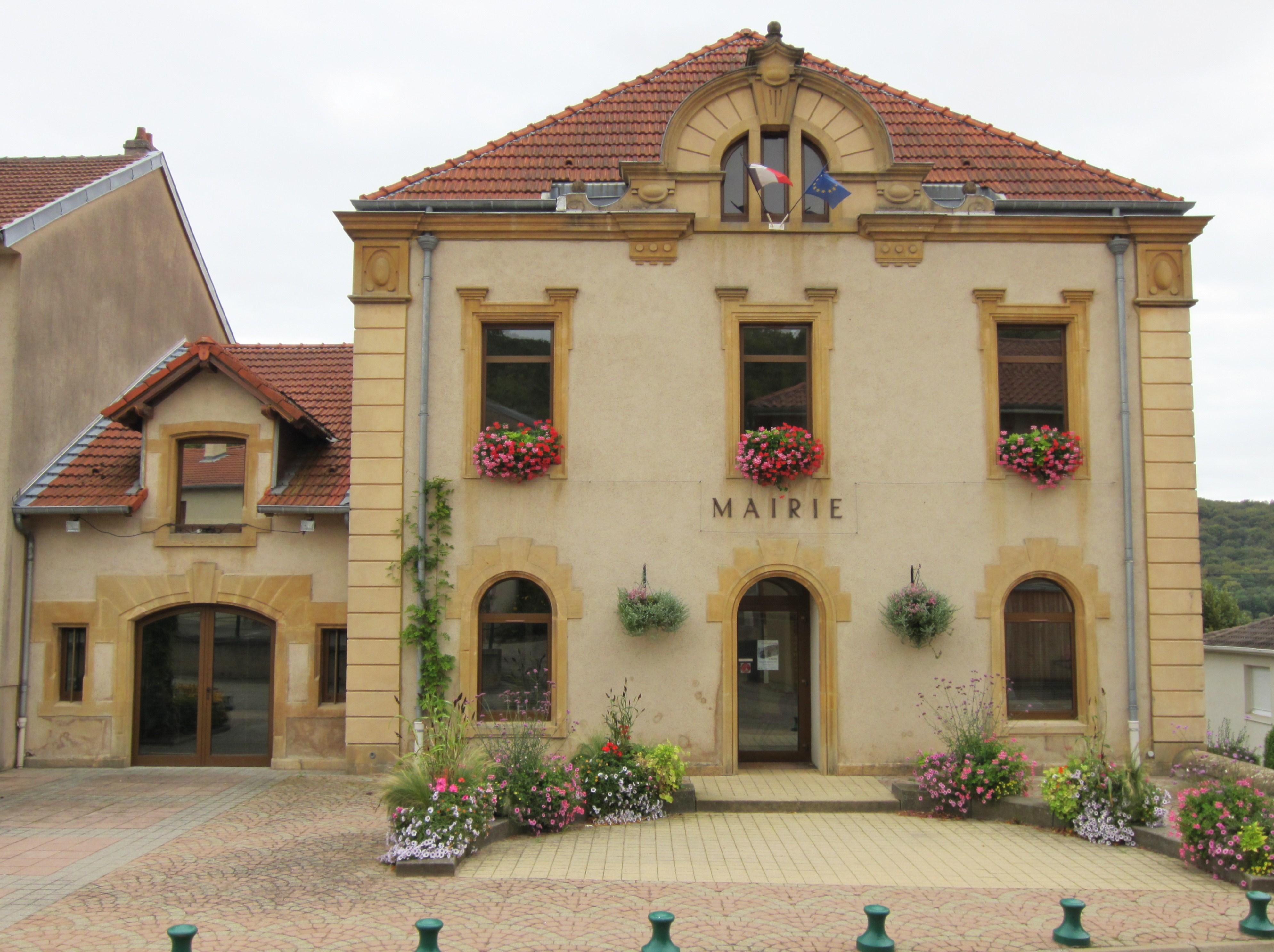 Description mairie Saulny Date7 September 2011Sourcemon appareil photoAuthorAimelaimePermission(Reusing this file) mairie Saulny